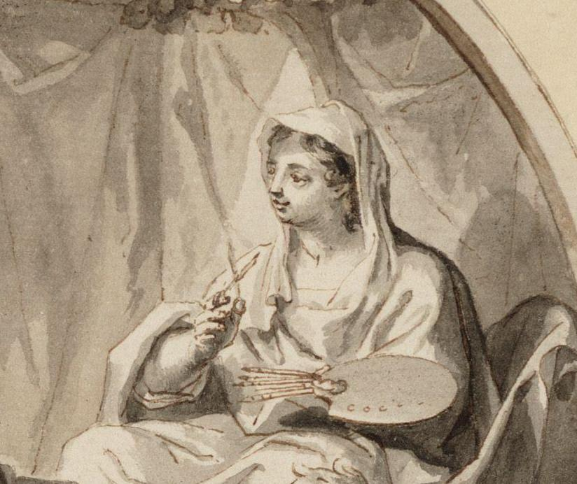 Allegoric portrait of Joanna Koerten (detail)